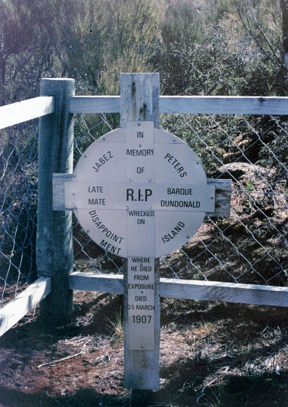 Photo of a grave on Auckland Islands